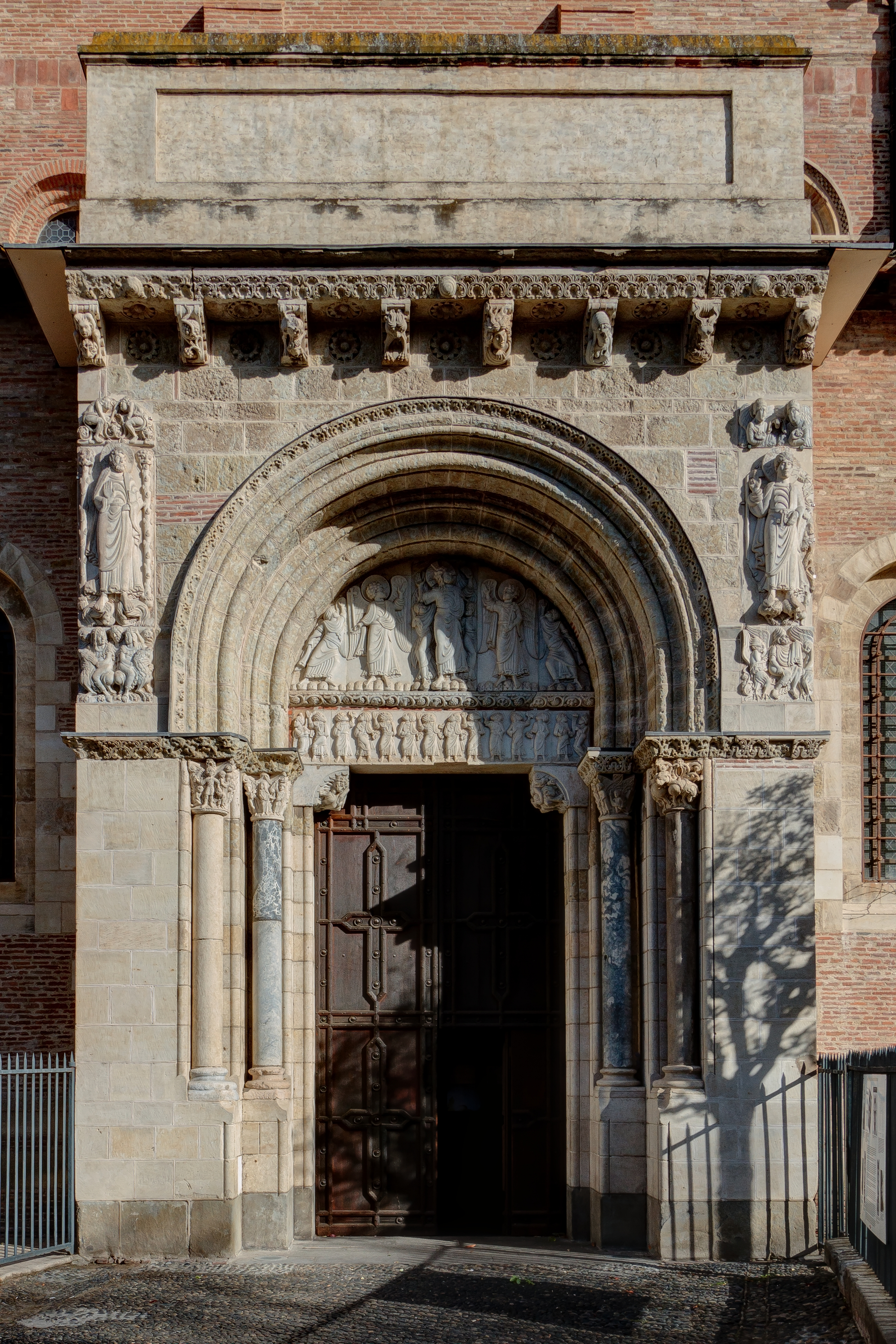 Miégeville's gate in Basilique Saint-Sernin in Toulouse: The cornices and it's 8 medallions: medallion 1, medallion 2, medallion 3, medallion 4, medallion 5, medallion 6, medallion 7, medallion 8 Saint James Saint Peter The tympanum The massacre of innocents The Annuciation and the Visitation The Original sin Lions